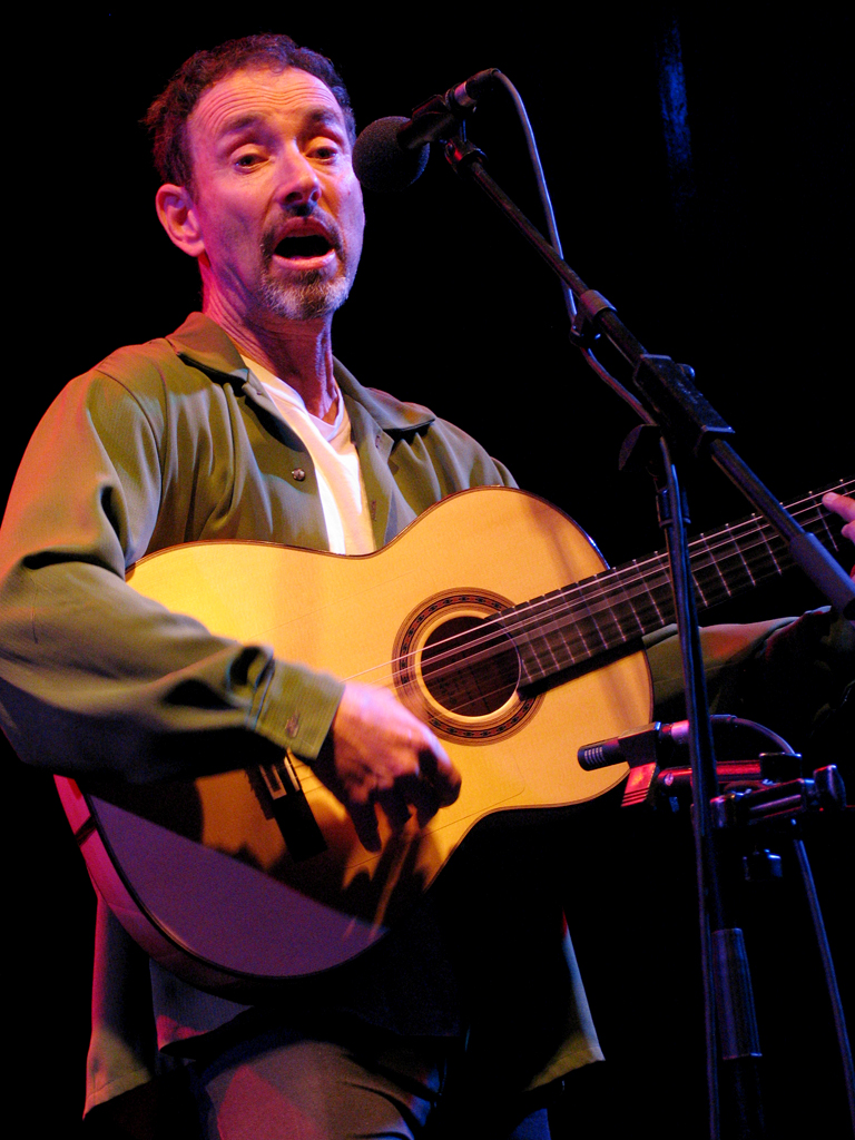 Jonathan Richman of The Modern Lovers performing in Barcelona in 2009.